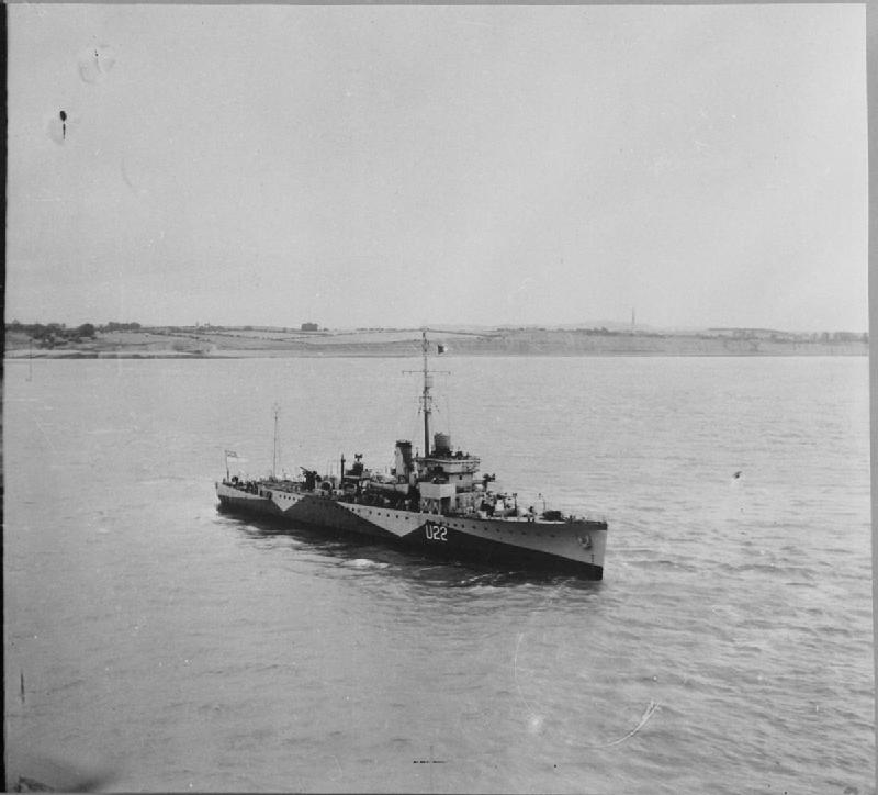 Photograph of British sloop HMS Folkstone stationary, in coastal waters.